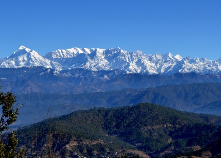 View of Himalayan peaks from Kausani.